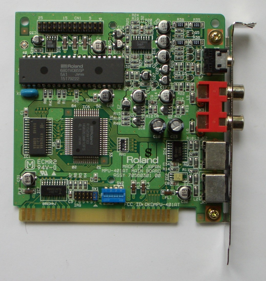 Roland MPU-401AT, a MIDI interface for IBM compatible computers